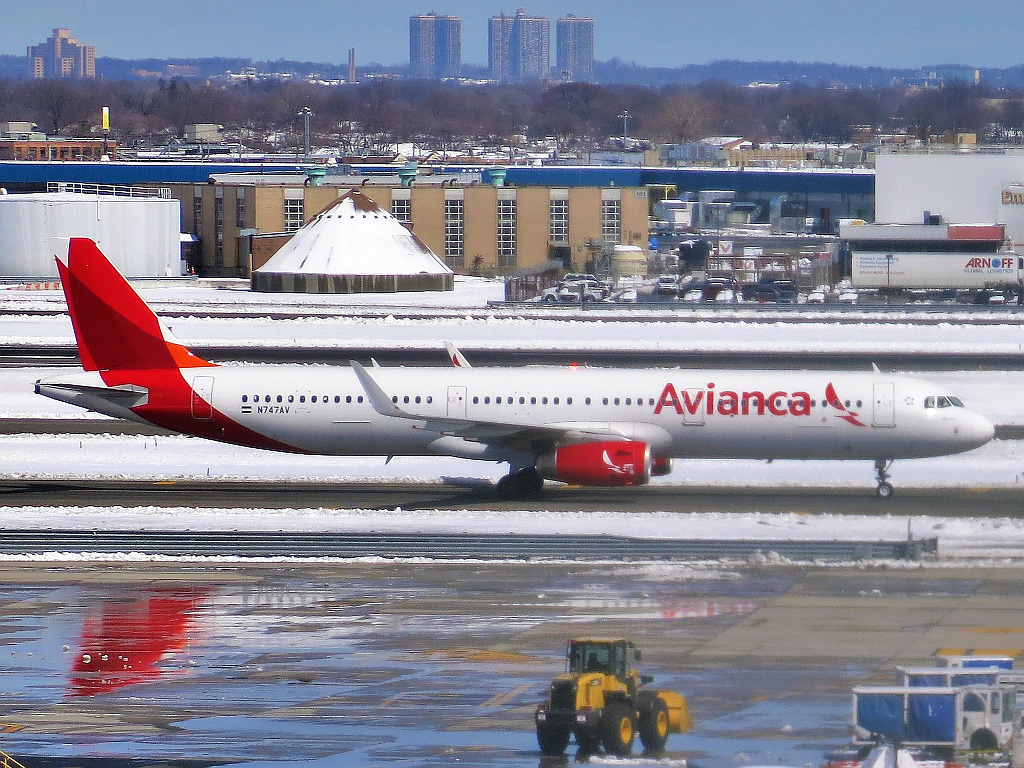 An Avianca Airbus A321 (assigned to Avianca Central America), operating under a LACSA flight number. is making a rare daytime appearance to transport passengers to JFK after a heavy snowstorm and to pick up passengers.